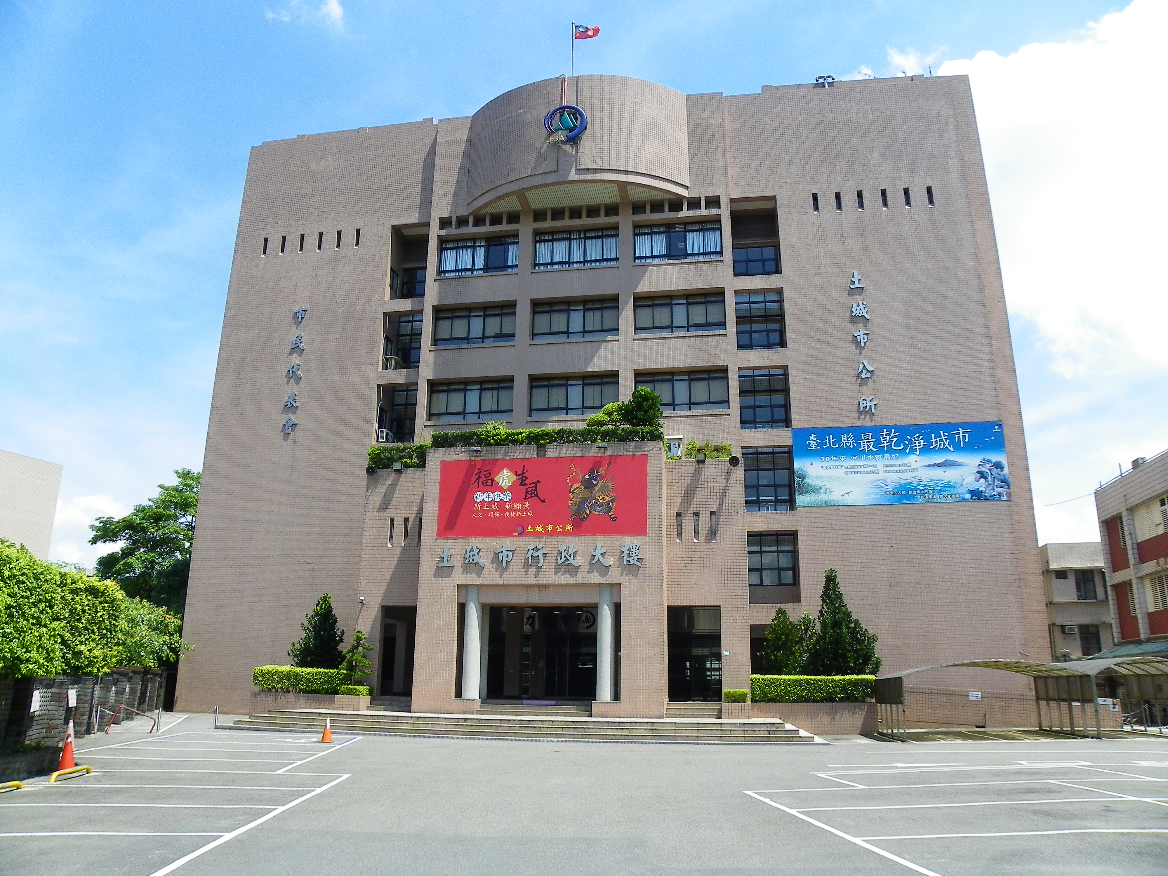 Tuchen City Administration Building, Taipei County.